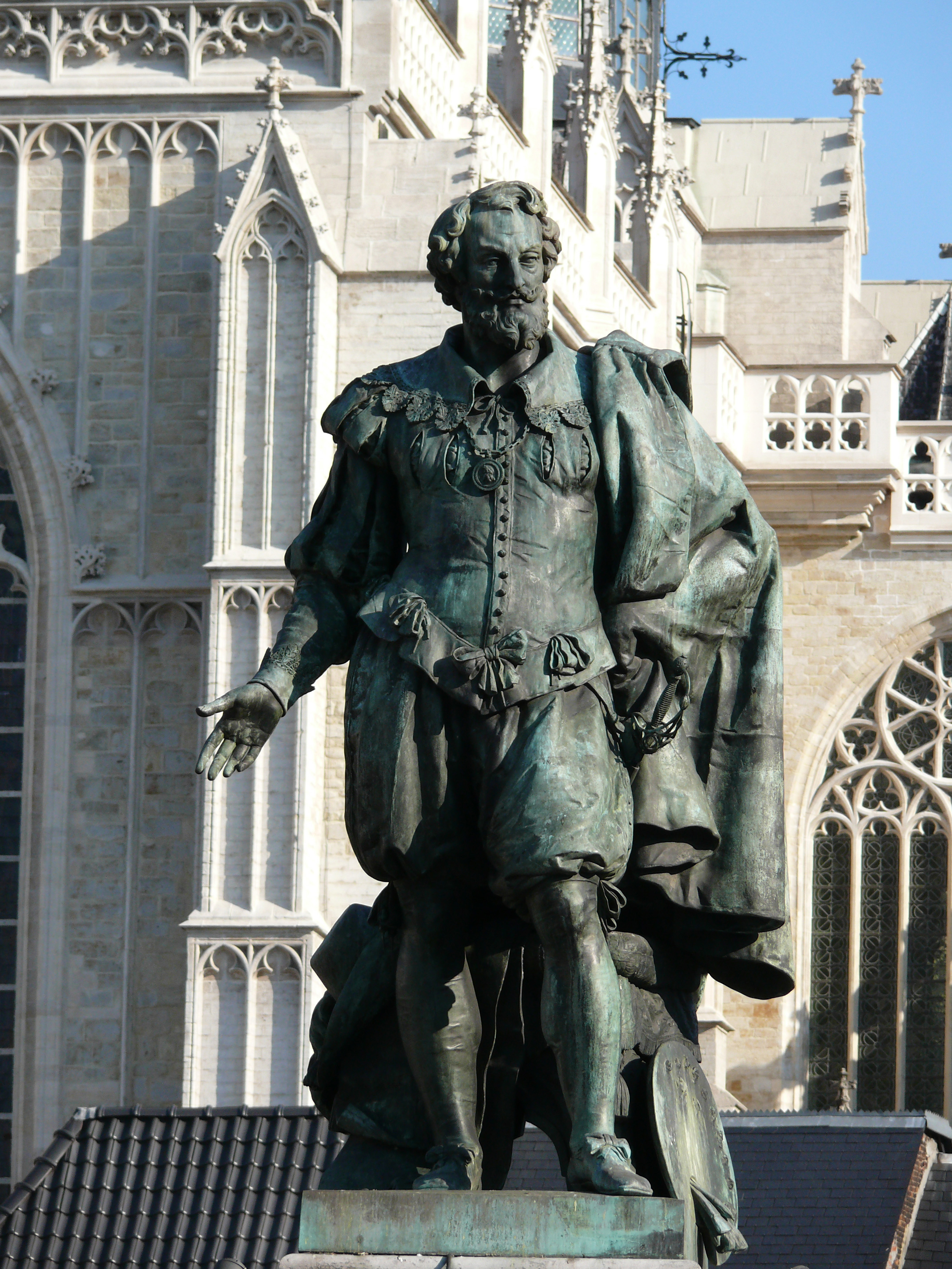 Statue of Peter Paul Rubens on the Groenplaats in Antwerp. The statue was designed by Willem (Guillaume) Geefs (1805-1883). Geefs received his training at the Royal Academy of Fine Arts in Antwerp (1821-1829). In 1833 he became a teacher at the Academy, a year later at the Academy of Brussels.